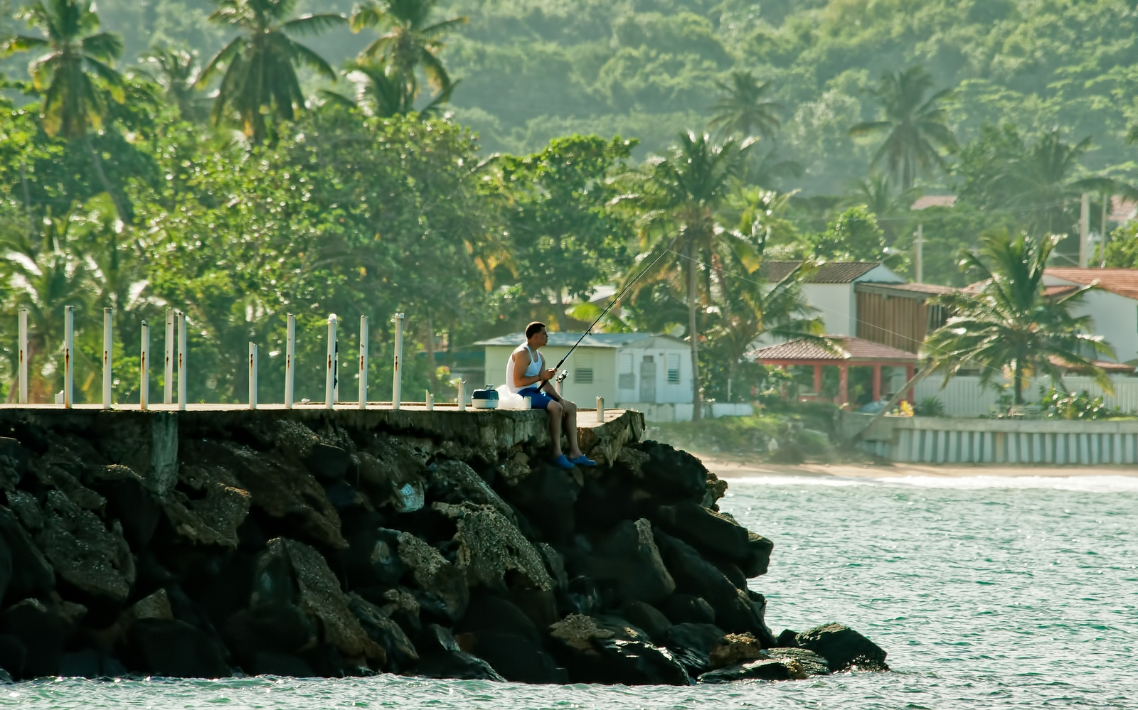 Fishing in Luquillo, Puerto Rico